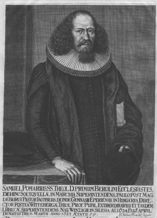 Potrait of Samuel Pomarius, copper engraving; picture: 187x159 mm; plate: 222x163 mm